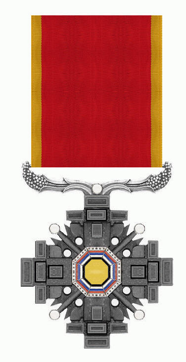 Order of the Pillars of the State